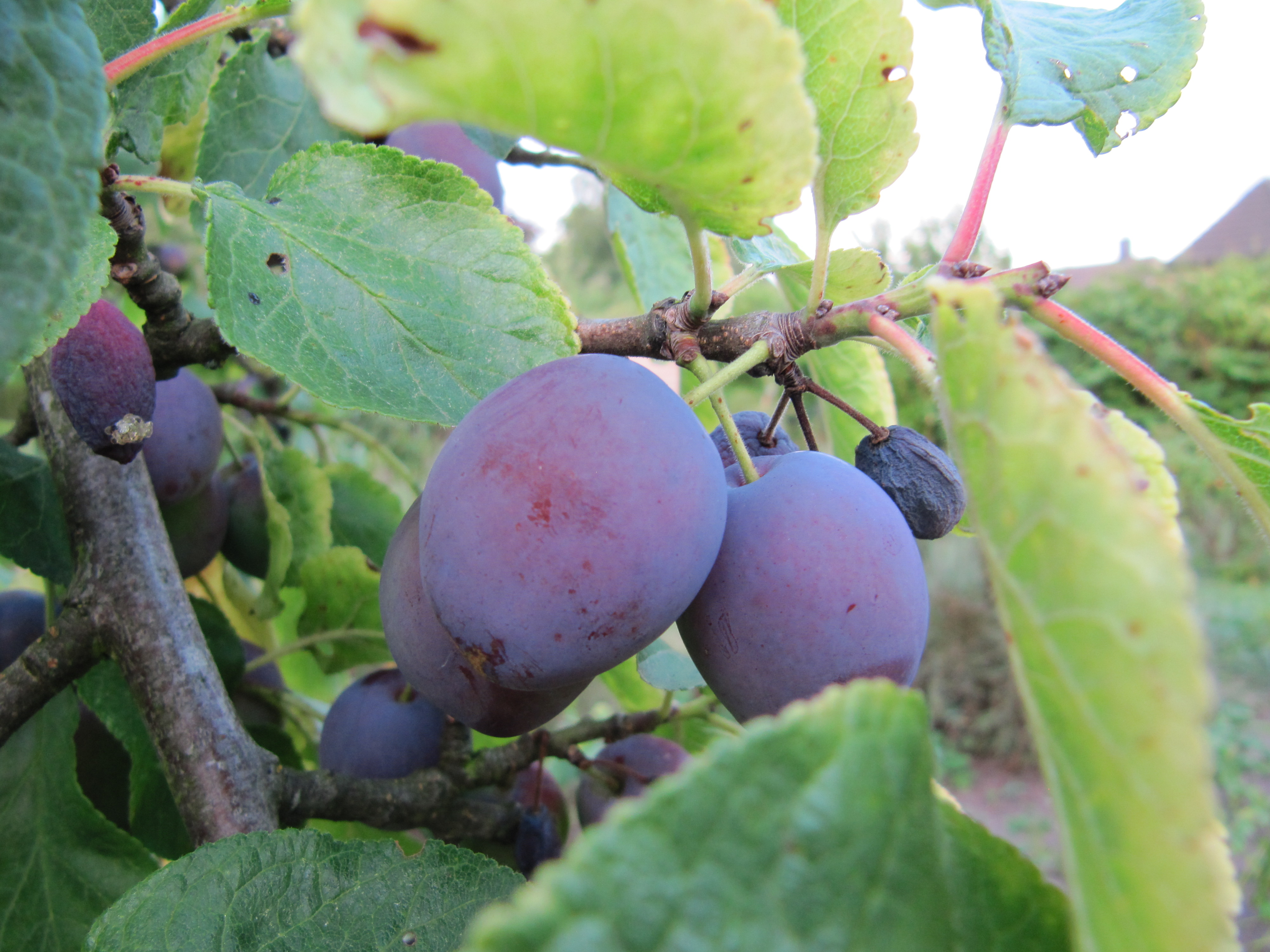 Plums